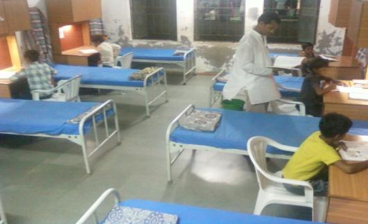 Study room of EMRS